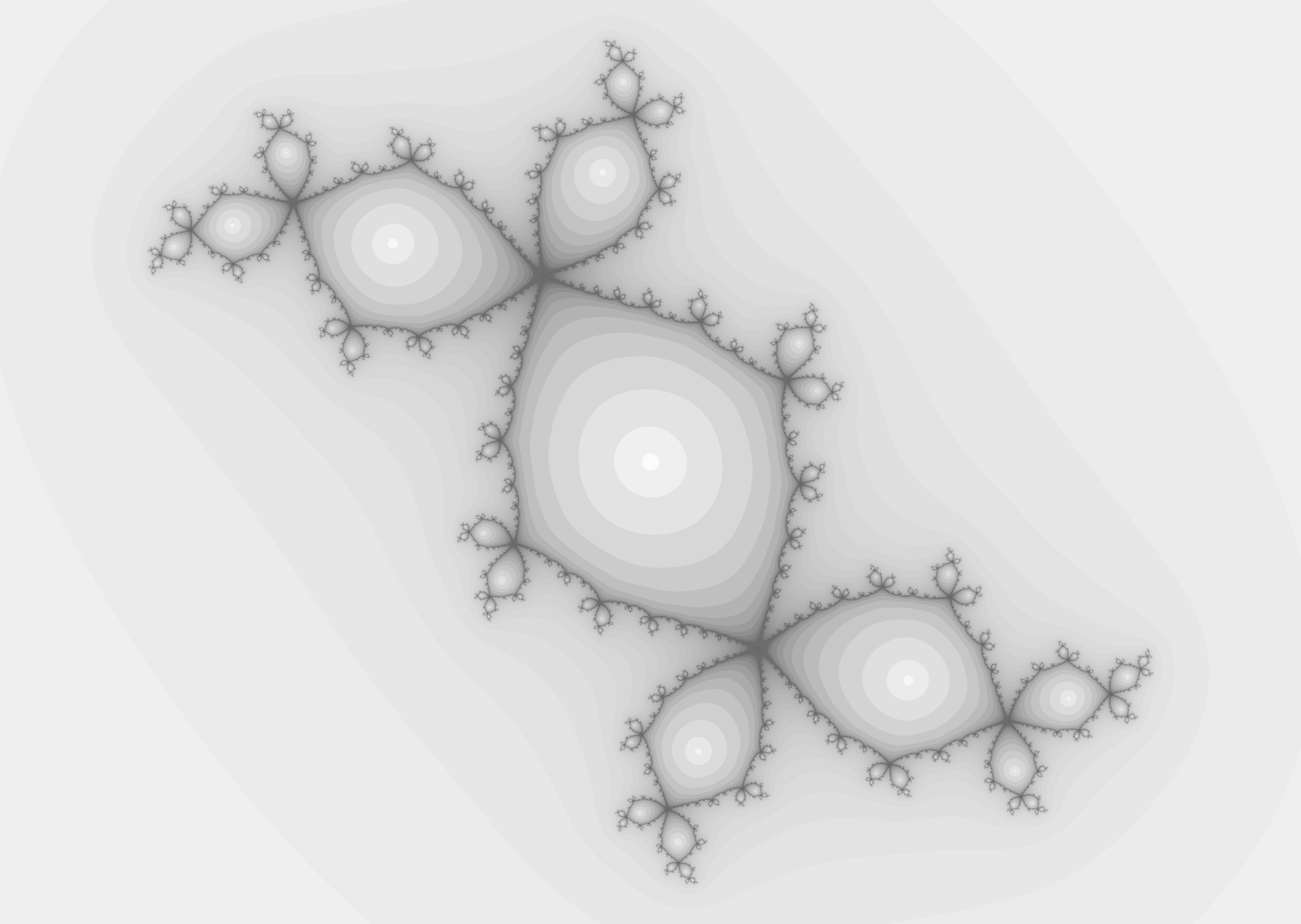 The Douady's Rabbit. Gray levels inform on the speed of convergence to attractive cycles.